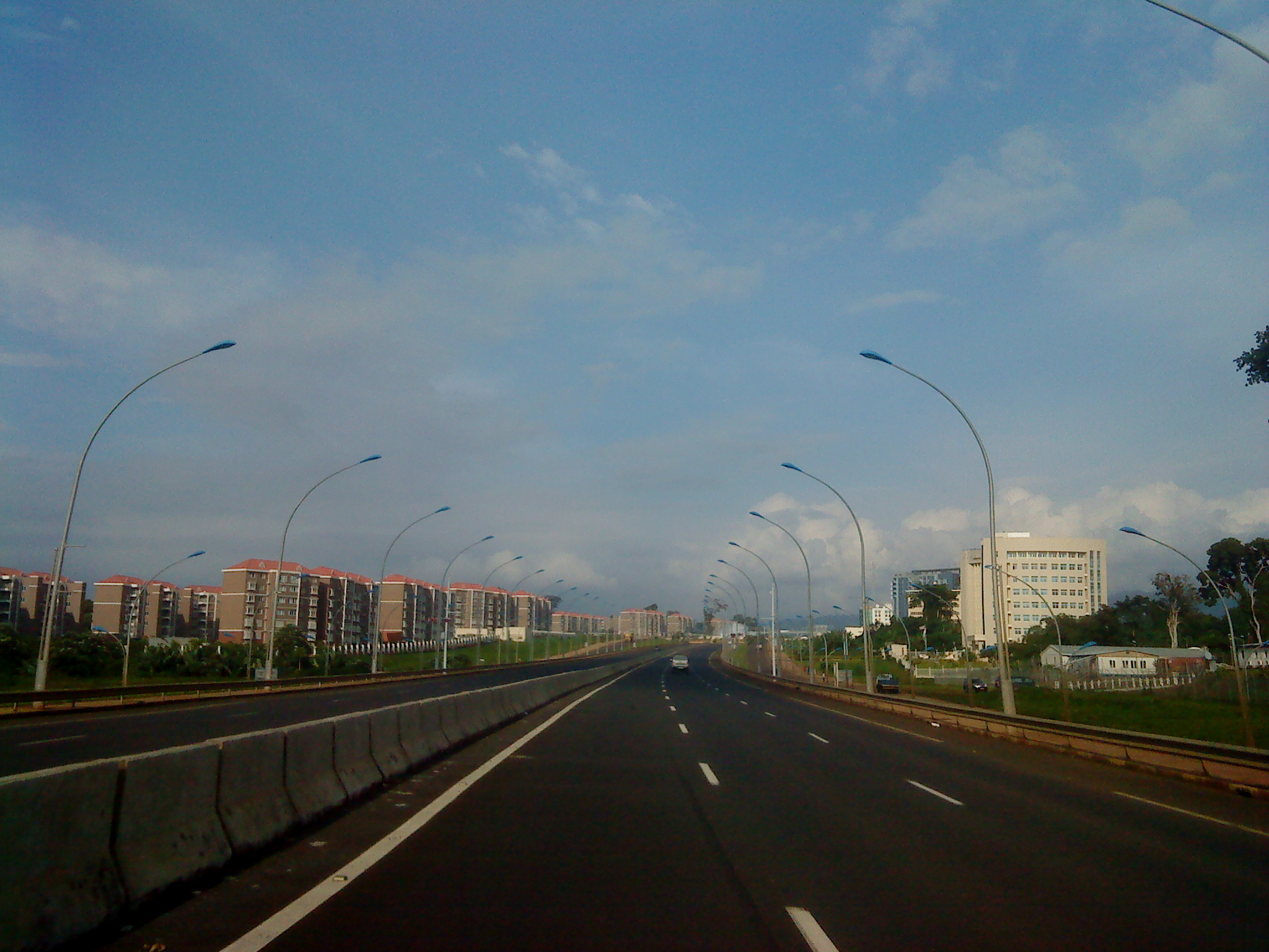 Ciudad de Malabo